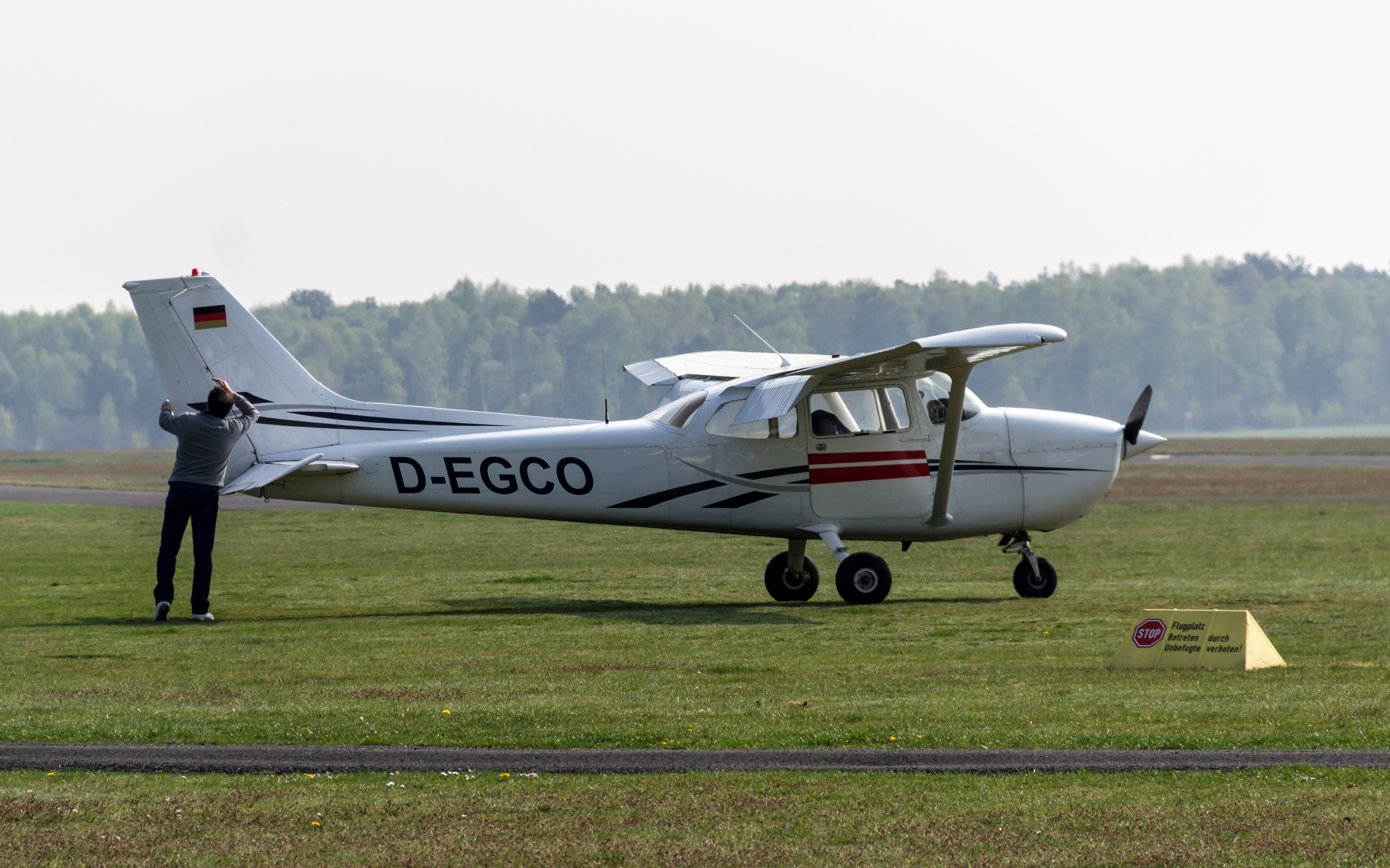 Cessna 172 at the air field Borkenberge near Lüdinghausen, North Rhine-Westphalia, Germany